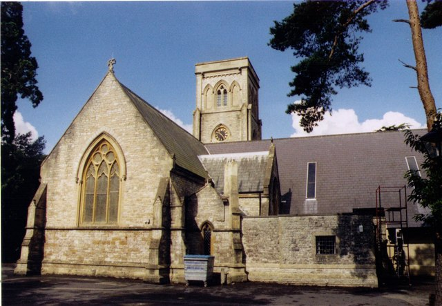 St Mark's parish church, Wallisdown Road, Talbot Village, Bournemouth, seen from the east